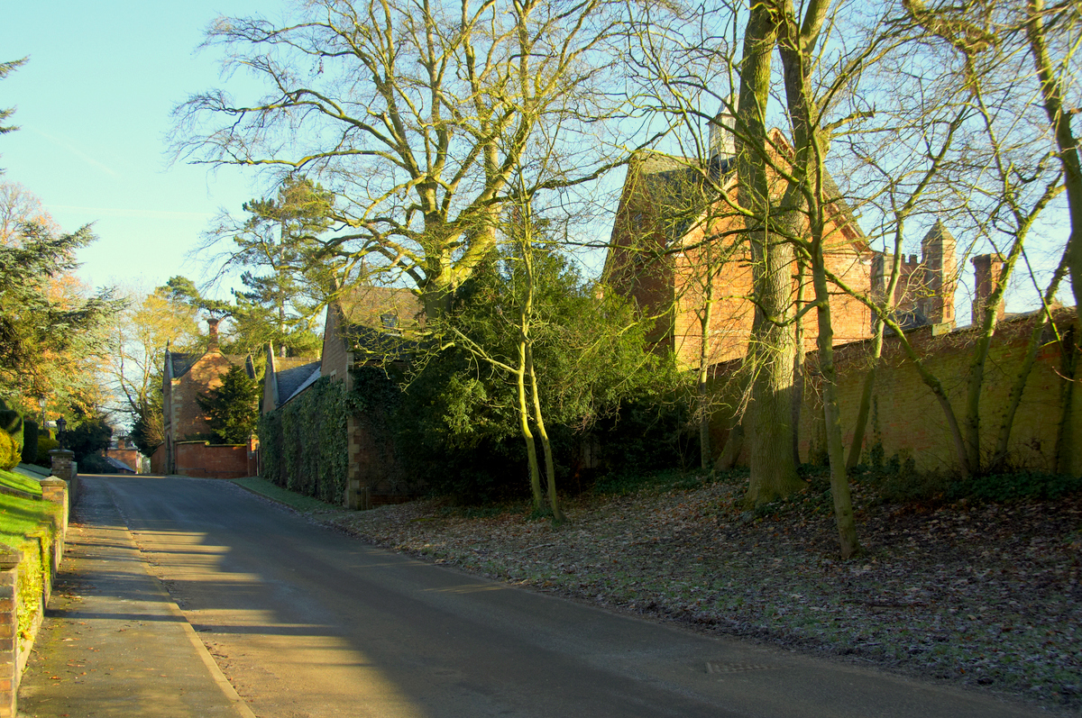 The gatehouse of 1629 (at top left of photo), stables (mid C19th) and dovecote of 1719 (with cupola), with the hall beyond.